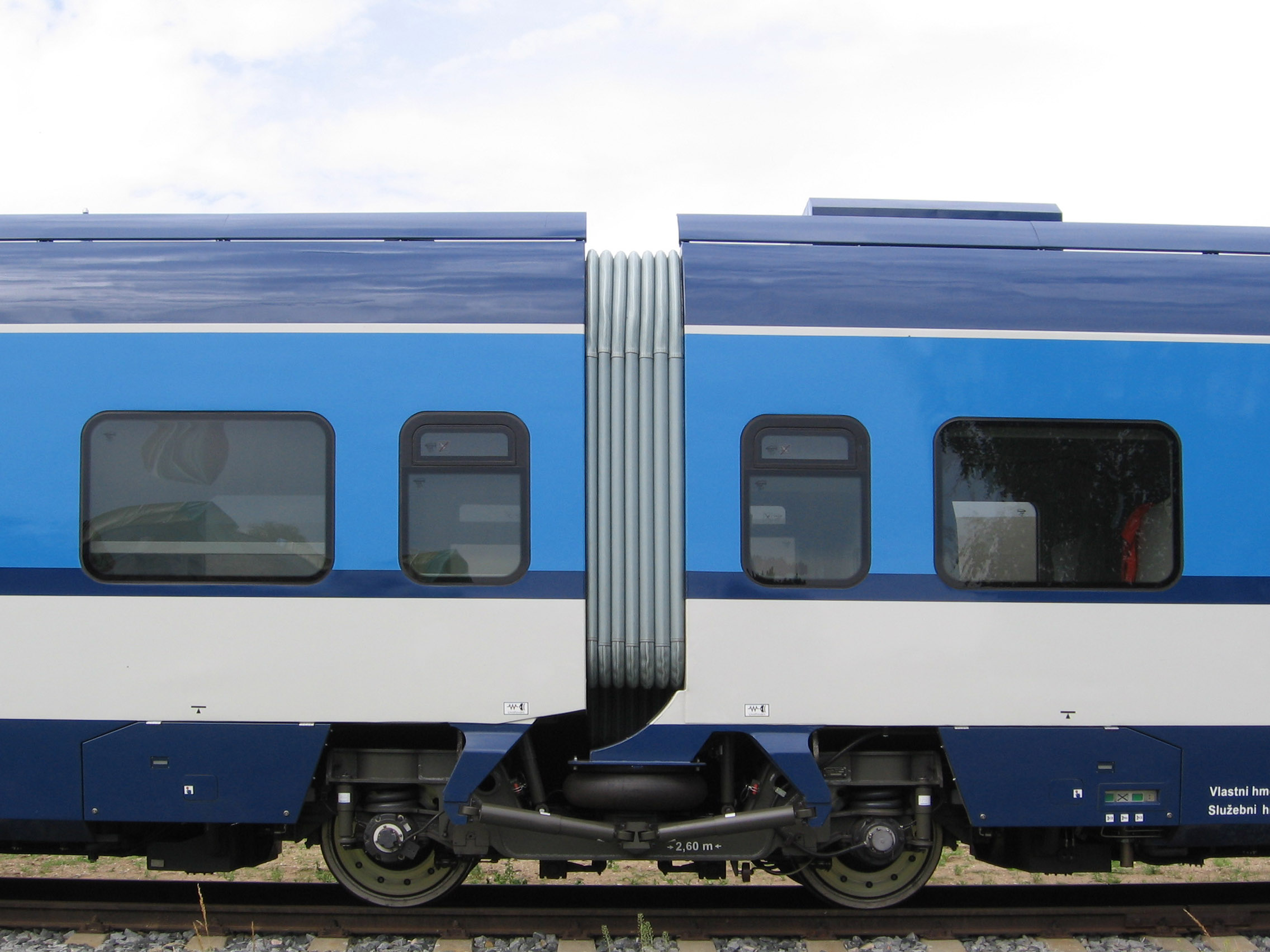 Jakobs´ trailer of DMU 844.001 ČD